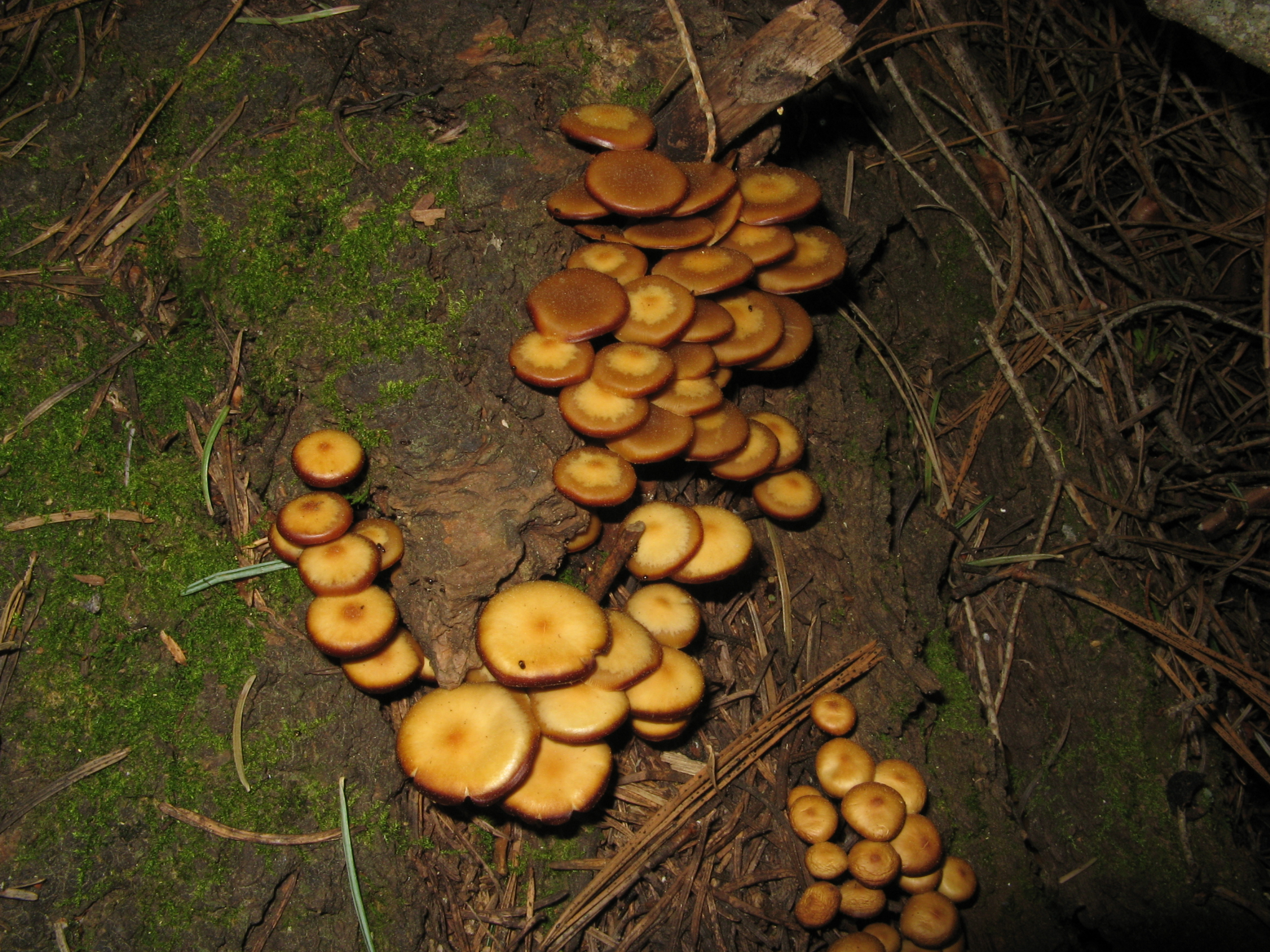 Kuehneromyces lignicola (Peck) Redhead